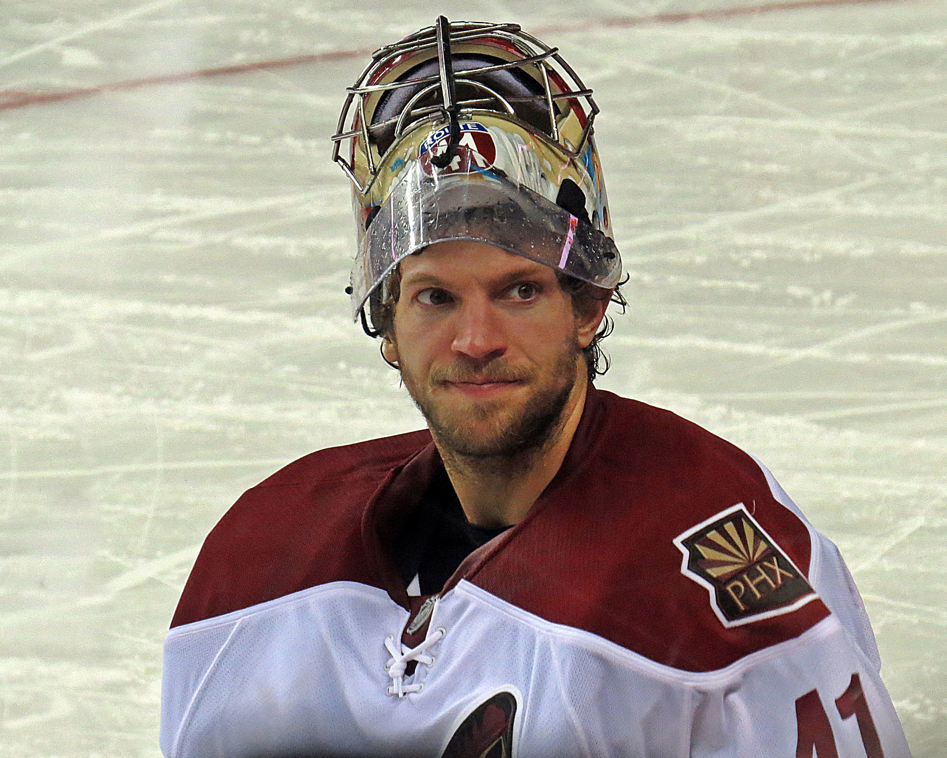 Smith with the Coyotes during the 2013-14 season.